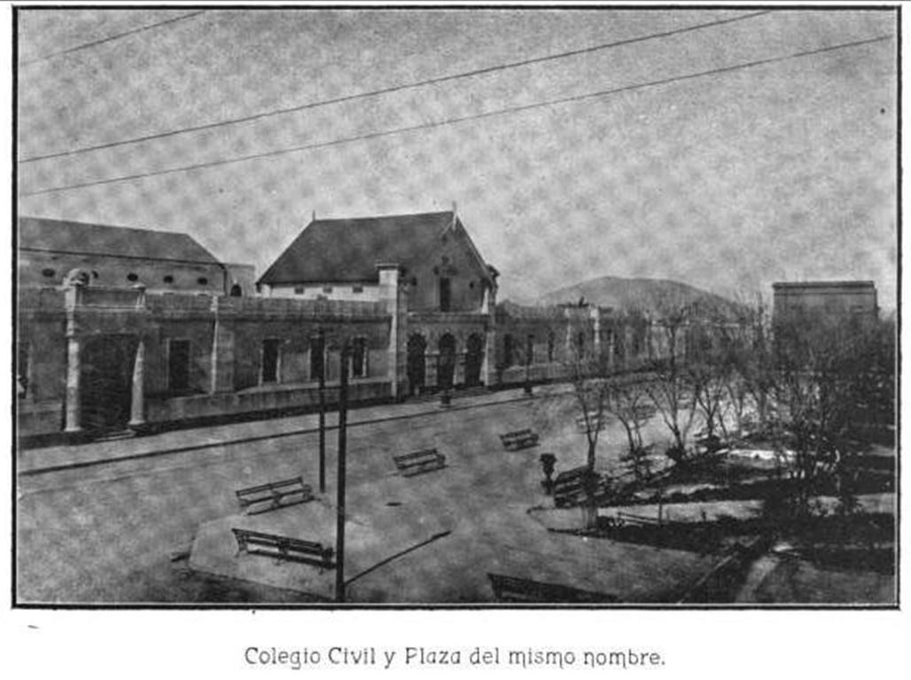 "Colegio Civil" The Civil College in Monterrey Mexico was the first civil university in the city. It was built in 1870. Sins then the building has had several modifications. Today (2008) is the Cultural Center of the UANL.